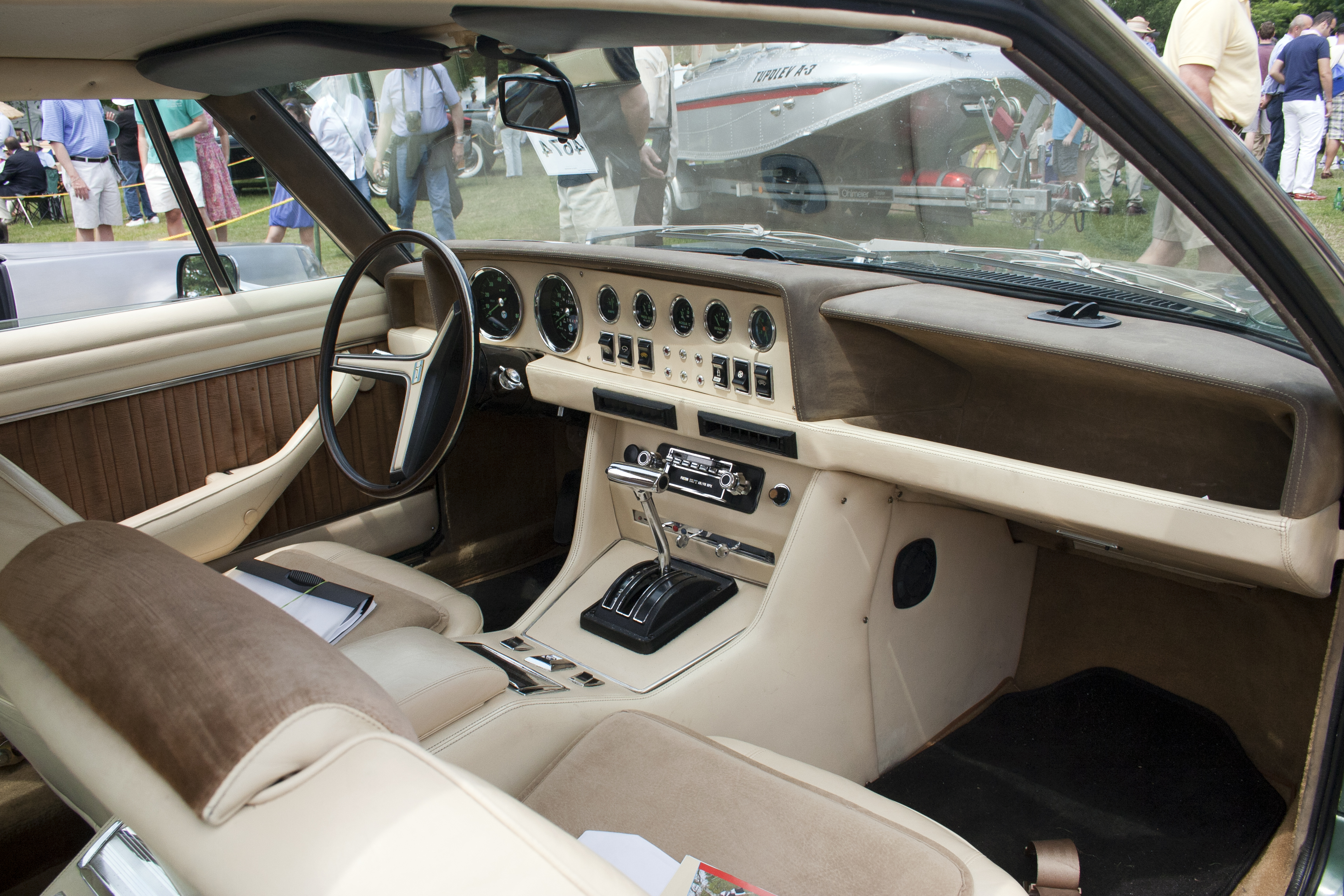 Interior of 1974 De Tomaso Longchamp, seen at the 2012 Greenwich Concours d'Elegance. The largely standard Ford steering wheel looks a bit malplacé in my eyes.